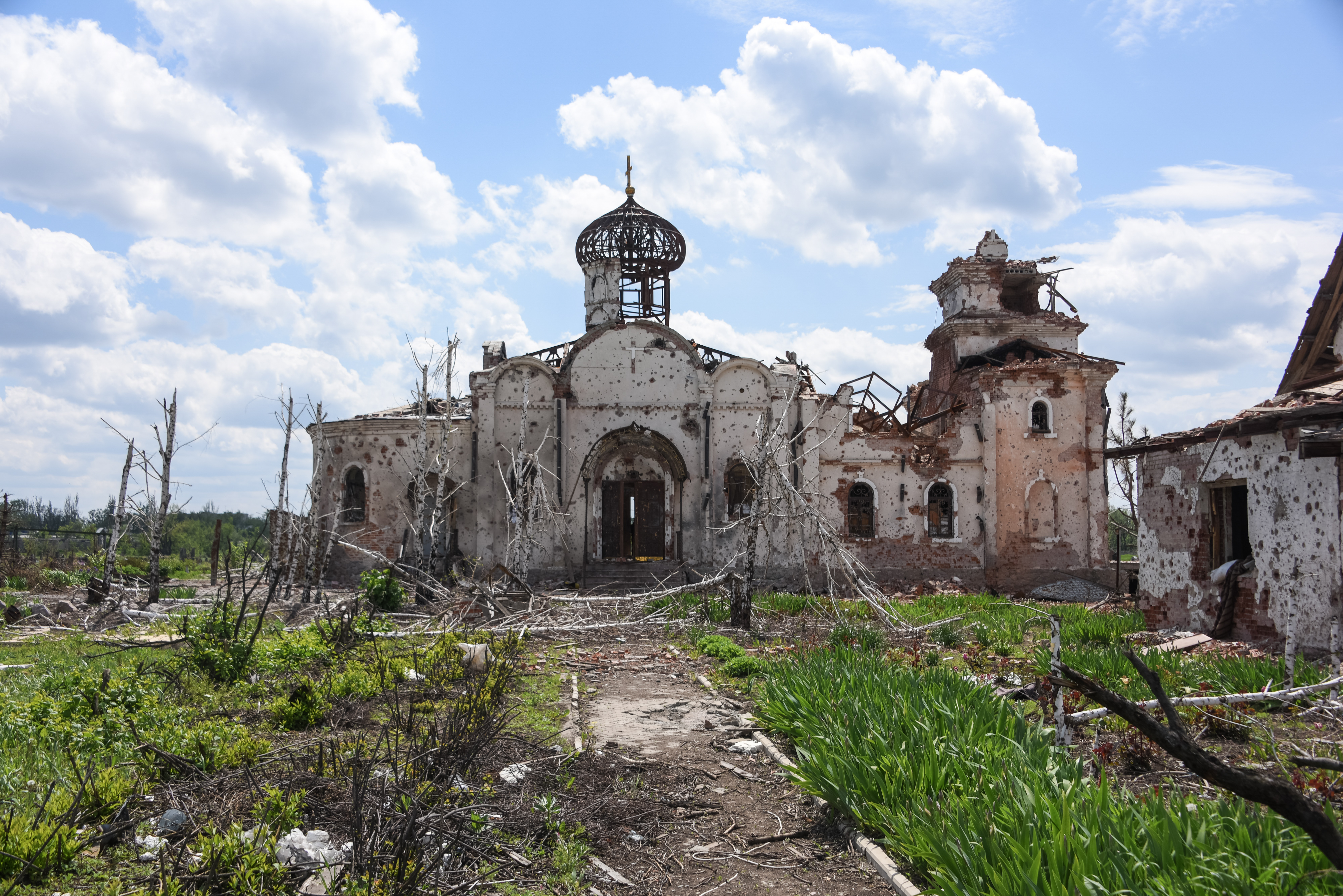 Remains of an Eastern Orthodox church after shelling near Donetsk International Airport. Eastern Ukraine, 18 May 2015